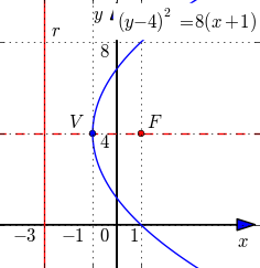 Parabola (y-4)^2 = 8(x+1) with horizontal symmetry axis.